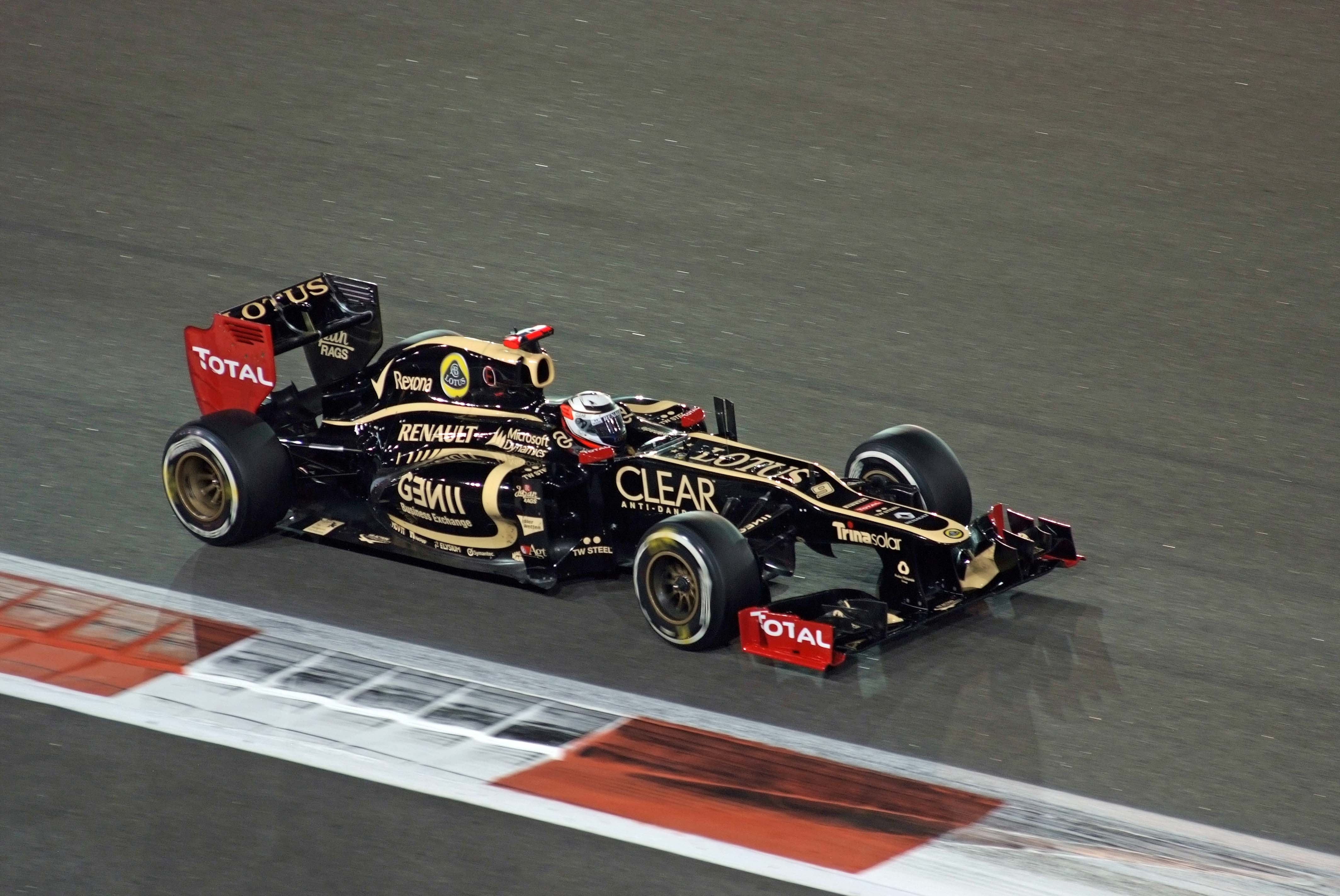 Paf customers travel to Dubai to experience the city, the desert and Formula One. Here is Kimi Raikkonen on the way to his great win. November 2012